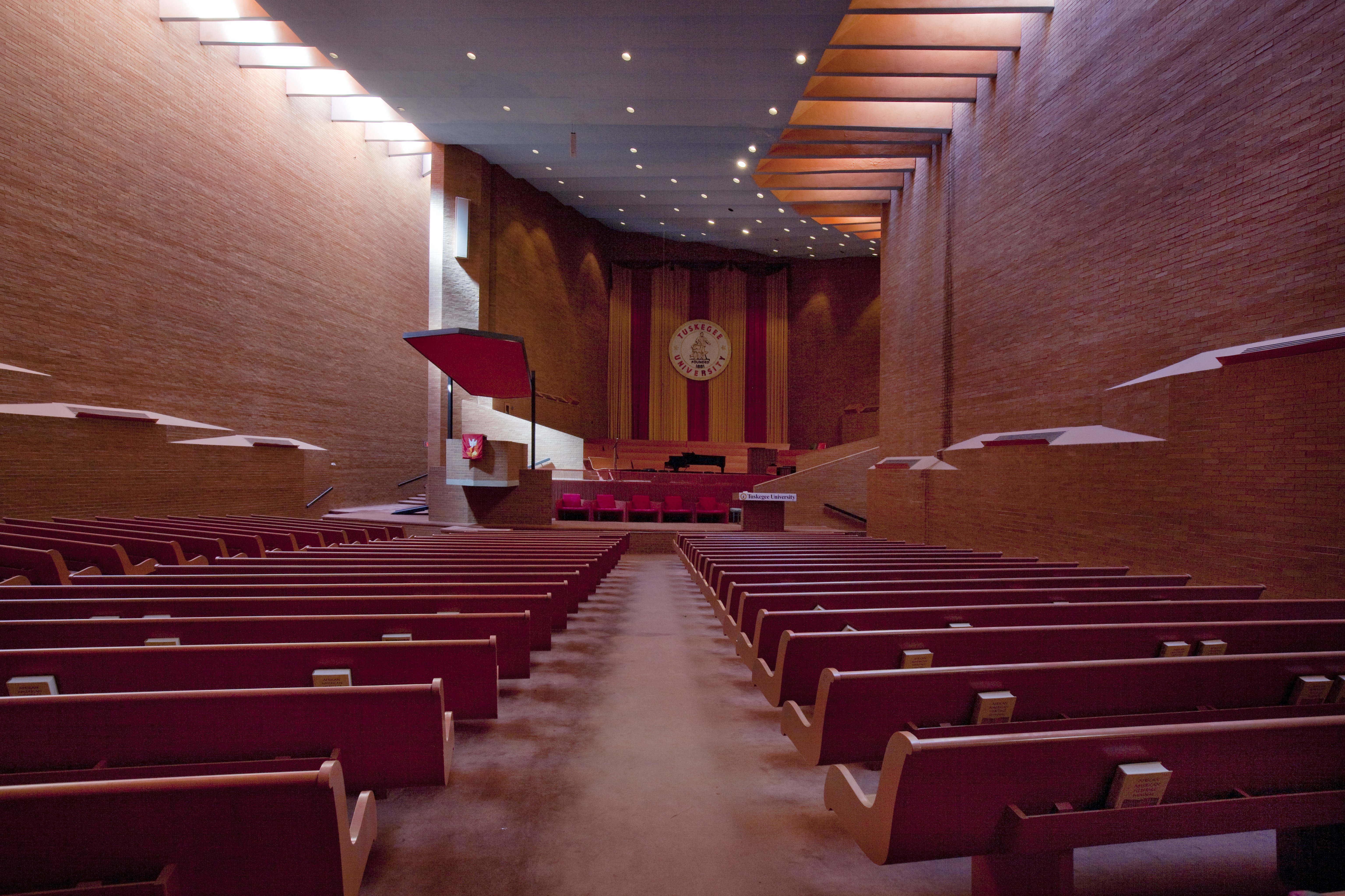 University Chapel, Tuskegee University, Tuskegee, Alabama